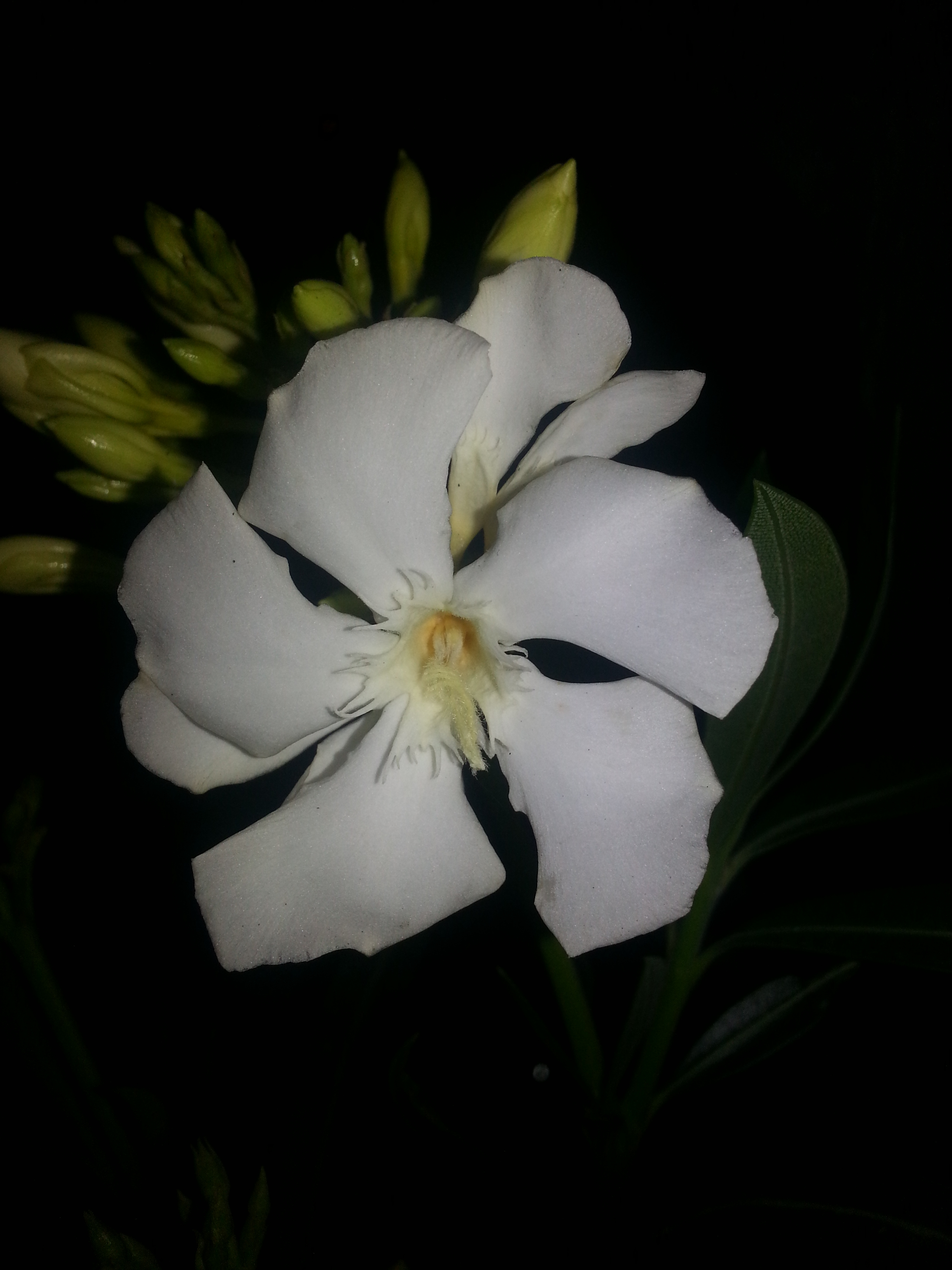 Nerium oleander (Nerium). Cultivar with white flowers. Flowers grow in clusters at the end of each branch.